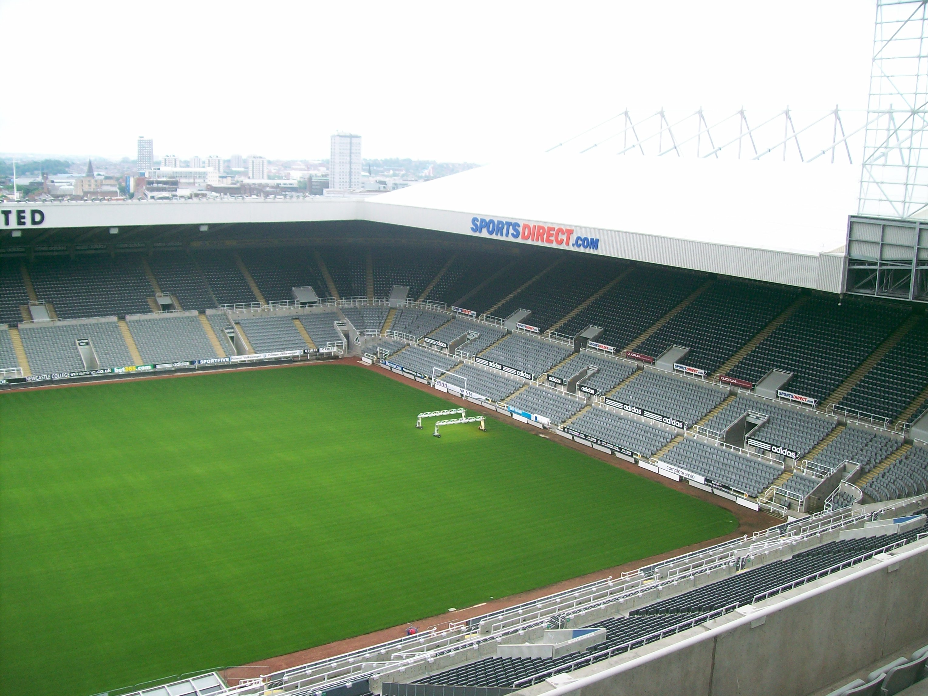 St James' Park's Famous Gallowgate End